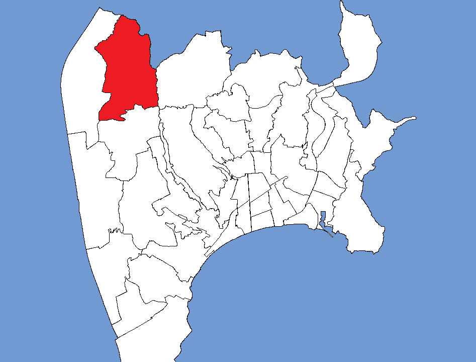 Location of the neighbourhood Saint Roman in Nice